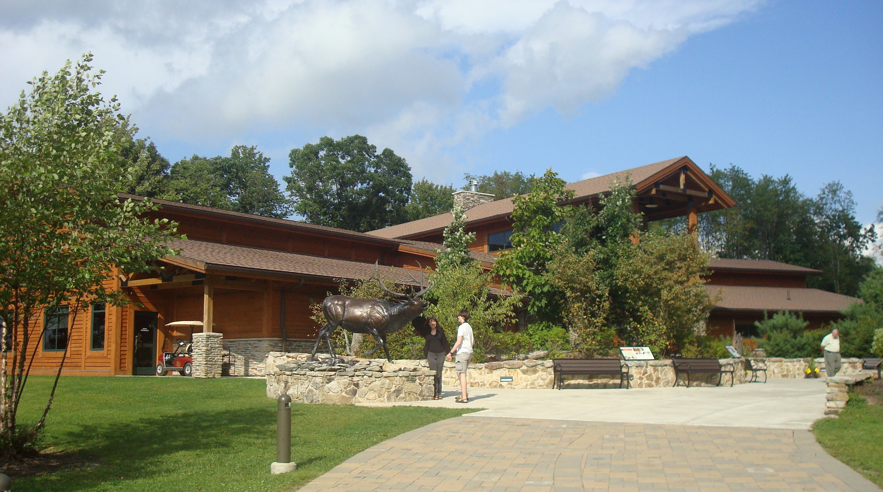 The Elk Country Visitor's Center at 134 Homestead Road in Benezette, Elk County, Pennsylvania opened in September 2010 as a partnership between the Pennsylvania Department of Conservation and Natural Resources and the Keystone Elk Country Alliance. (Source: [1])